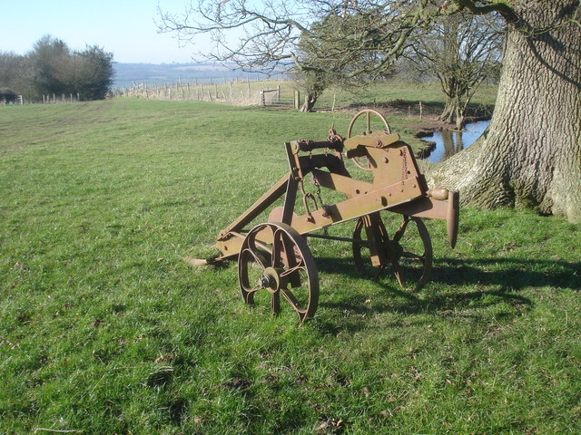 Mole drainage implement. The 1926 and 1930 Land Drainage Acts and the Agricultural Act 1937 provided partial grants to farmers for improving drainage. However, digging trenches and laying clay pipes or tiles was expensive, so despite the grants, farmers often never recouped their own costs. As a result, the Ministry of Agriculture turned to investigating machinery. During the 1930s, machines based on those used for laying water supplies etc made little impact because the expense was still too high. The Ministry eventually put considerable energy into promoting mole drainage implements which could be tractor-drawn. The approach was to drag a pointed object at a constant level below the surface. To work, the land needed to be predominately clay to prevent soil crumbling from in-filling the hole. Land also needs to be on a slope to allow the water to run off below ground. Of course clay soils tended to be the wettest, so this method proved more popular. Even then, it was likely that repeat moleing would have been needed every five years or so. This implement looks to be about 1960 vintage and would have been a predecessor of today’s machines (but without the pipe layer part), cf. [1].